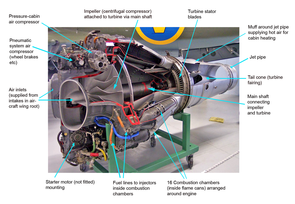 A picture of a sectioned de Havilland Goblin II describing the internal components.